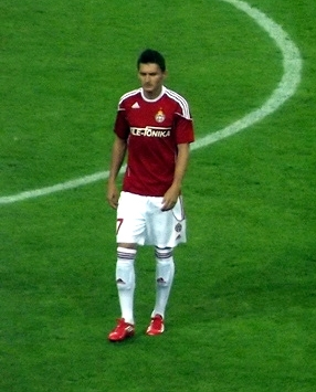 Andraž Kirm